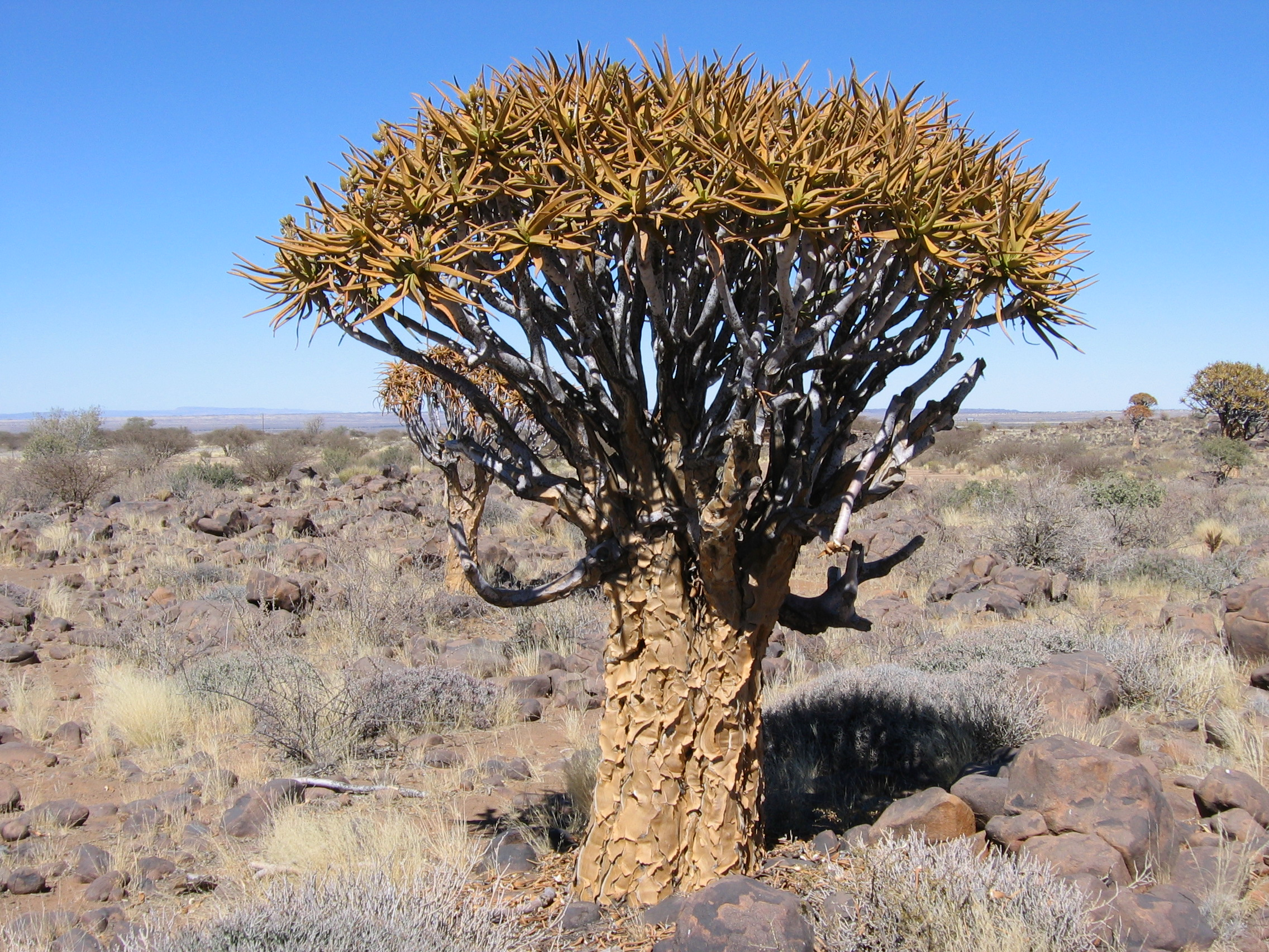 Quiver tree (Aloe dichotoma) is a species of aloe, picture taken in the quiver tree forest, Namibia Köcherbaum (Aloe dichotoma) im Köcherbaumwald